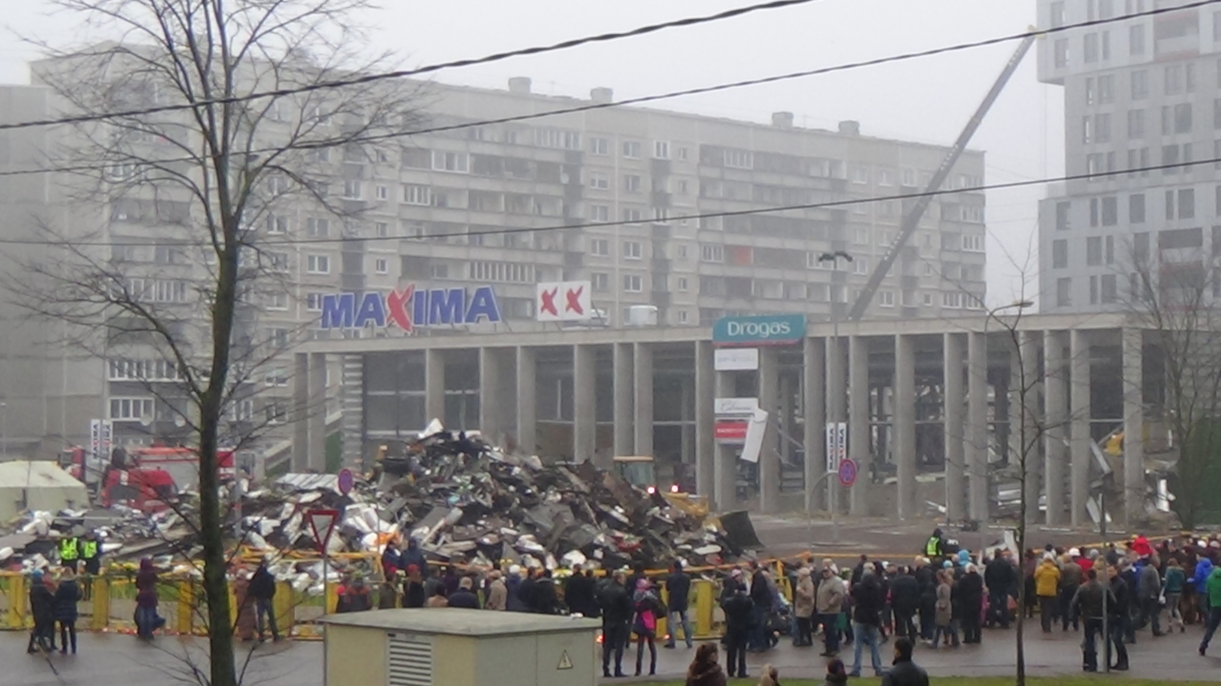 Riga supermarket collapse Maxima